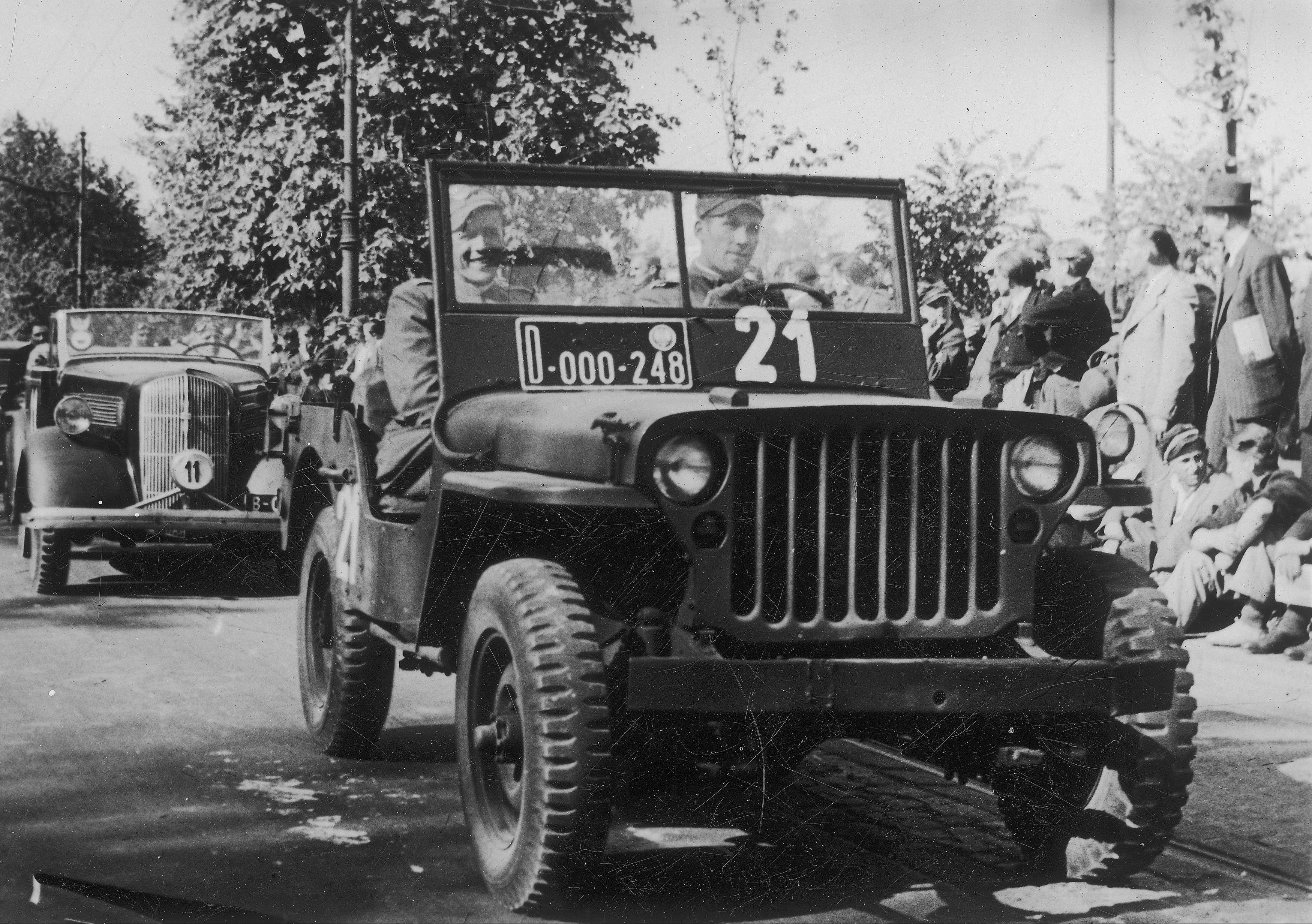 A race in Warsaw. Willys MB.